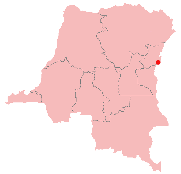 Goma, Democratic Republic of the Congo Location Map; created with the GIMP. Made by User:Acntx.